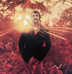 Ray Peterson